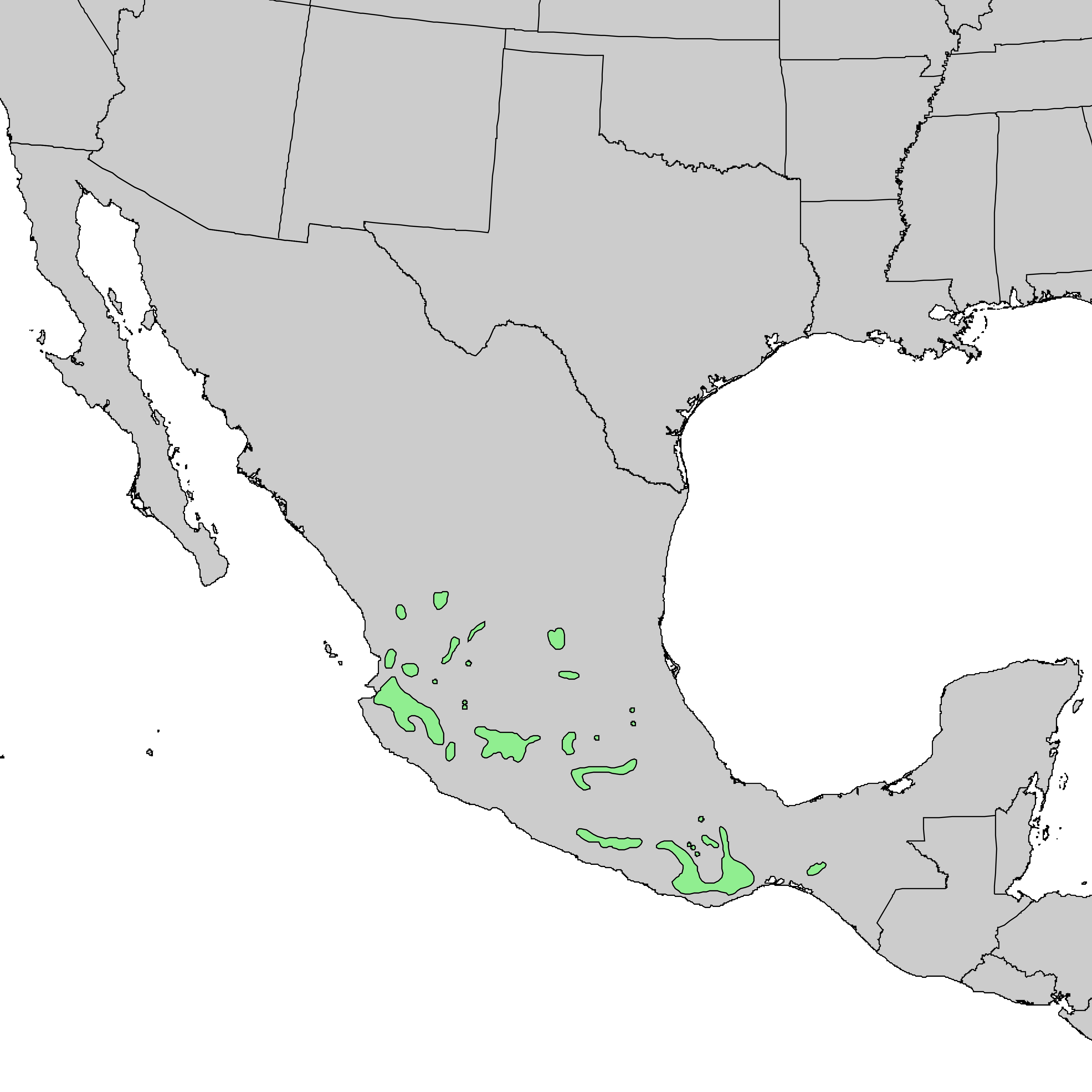 Natural distribution map for Pinus devoniana (syn. Pinus michoacana)